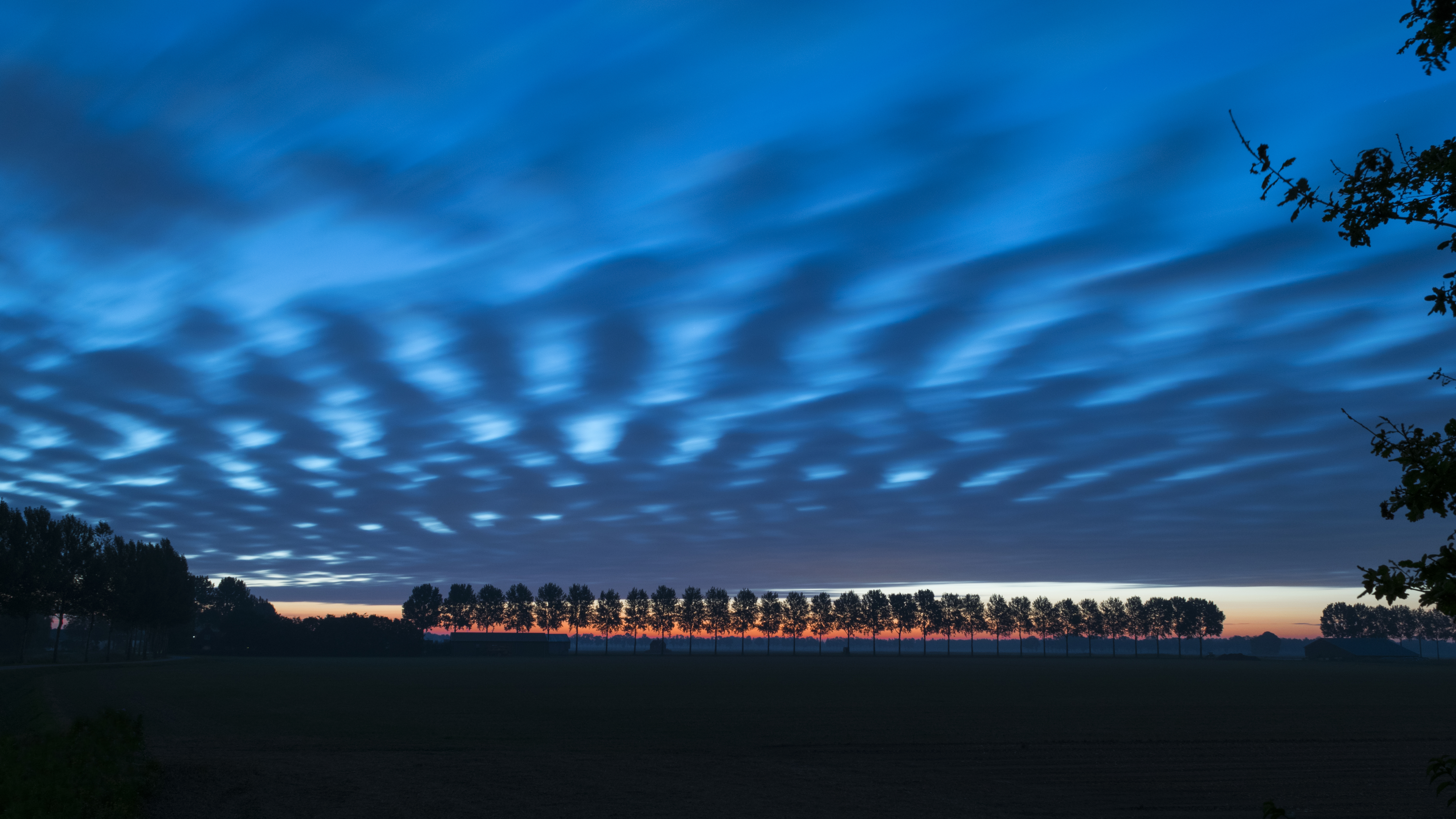 This morning I watched a sunrise with a sky filled with art. The sun is just behind the horizon.